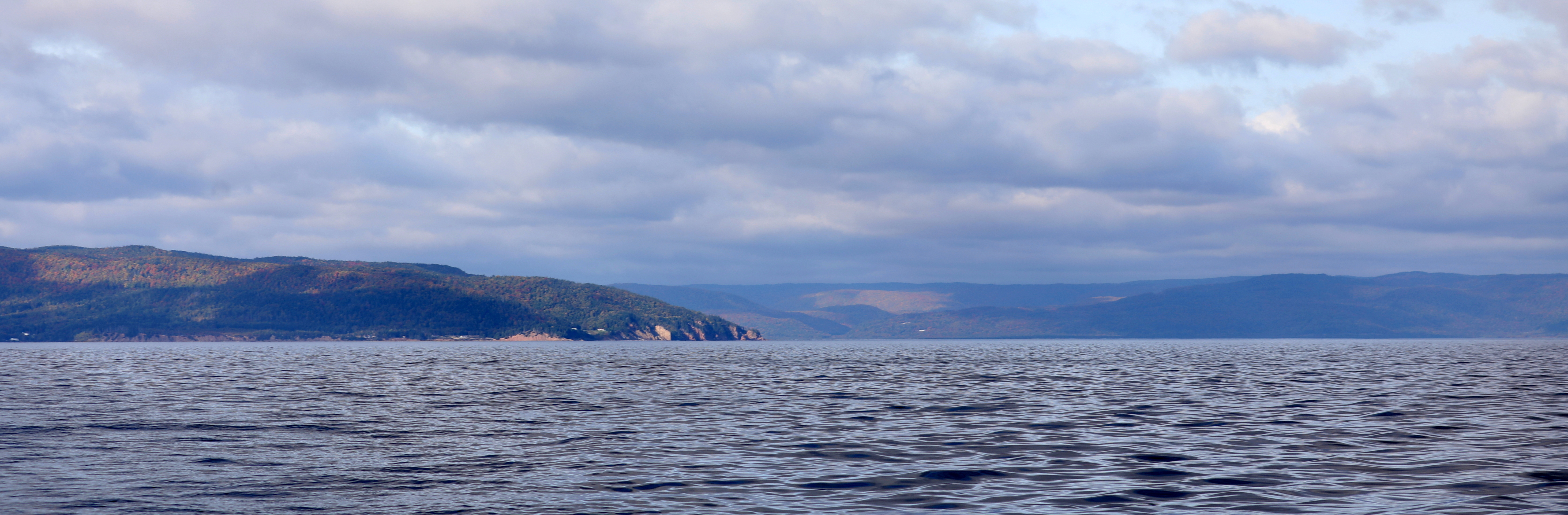 Cape Dauphin is a Canadian headland in Victoria County, Nova Scotia The cape is located on the east coast of Cape Breton Island and divides St. Ann's Bay to the north from the Great Bras d'Or channel to the south. Cape Dauphin lies at the foot of Cape Dauphin Mountain which rises to the southwest to a summit of 334.1 metres (1,096 ft) above the shores of the cape. The easternmost tip of Cape Dauphin is composed of karst topography and has several solution caves in the area, one of which, "Fairy Hole" is a sea cave reputedly linked to various legends of the Mi'kmaq Nation.